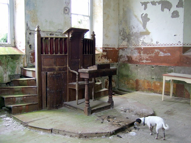 Bryn Salem, interior The chapel is unlocked but has not been vandalised, probably because it is well off the beaten track and indeed all but invisible. The fabric of the building and the woodwork is deteriorating and very damp. Birds (possibly owls) have been roosting inside.